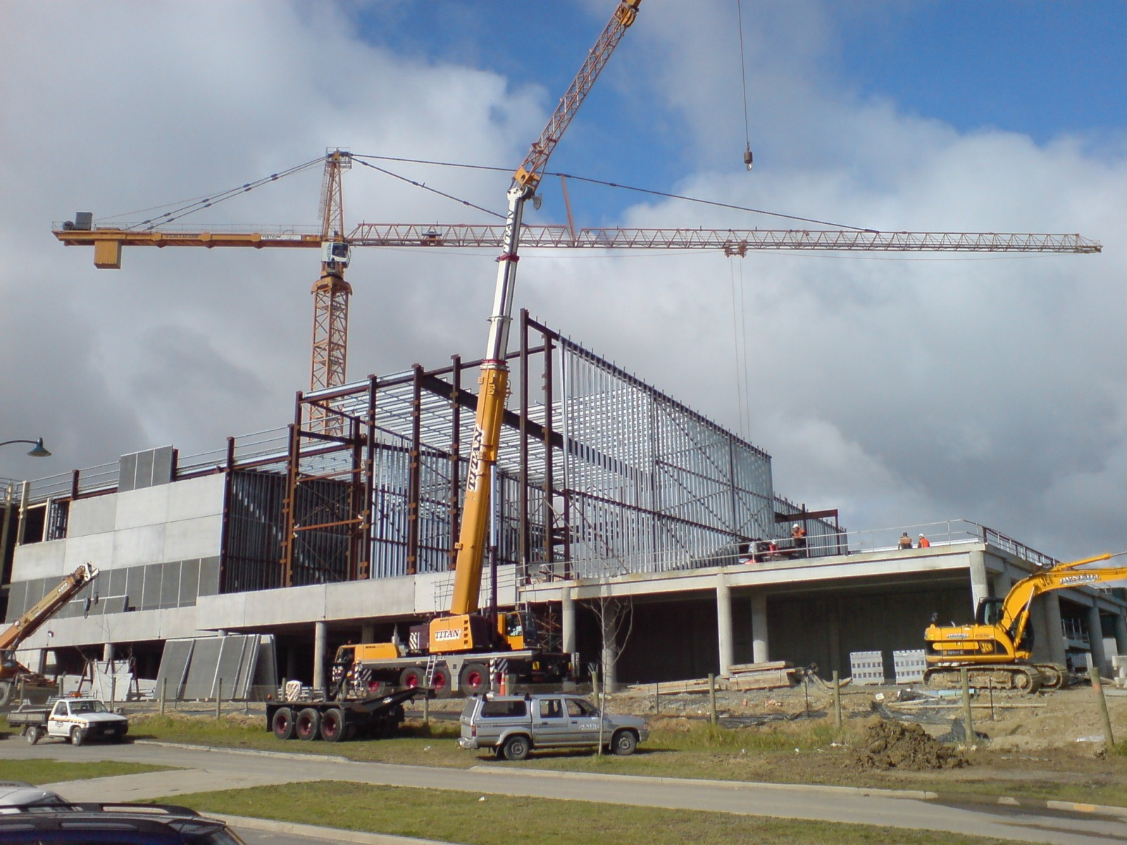 Westfield Albany, the largest shopping centre of the country, being finished in Albany, North Shore City, New Zealand. View from Civic Crescent towards the cinemas (steel structure being erected).